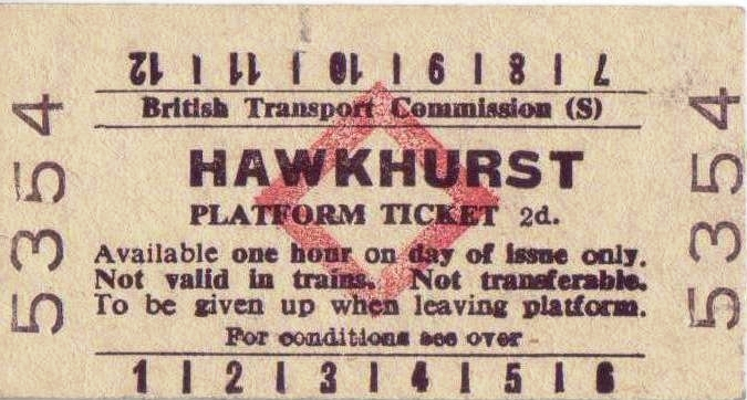 Platform ticket issued by the British Transport Commission in respect of Hawkhurst railway station, five days before closure of the Hawkhurst Branch Line.